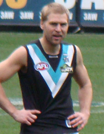 Cyril Rioli perfect balance